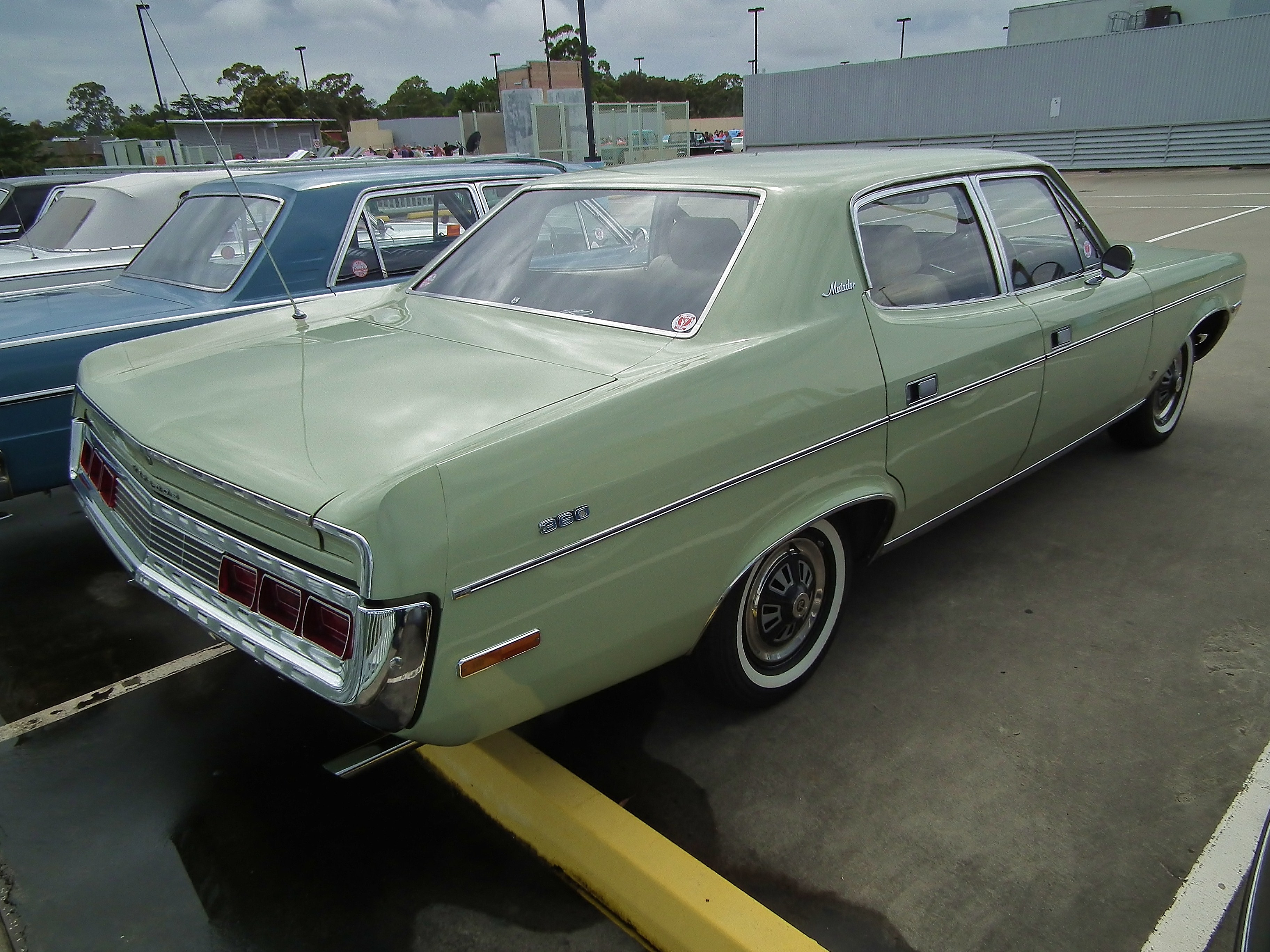 1972 Rambler Matador 360 sedan. Australian assembled. Taken at the 2012 New South Wales All American Day, held at Castle Towers Shopping Centre, Castle Hill, Sydney.